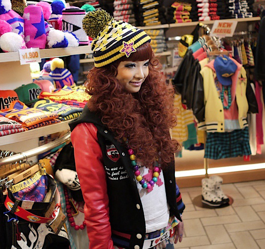 More fashion from Shibuya in a later post.